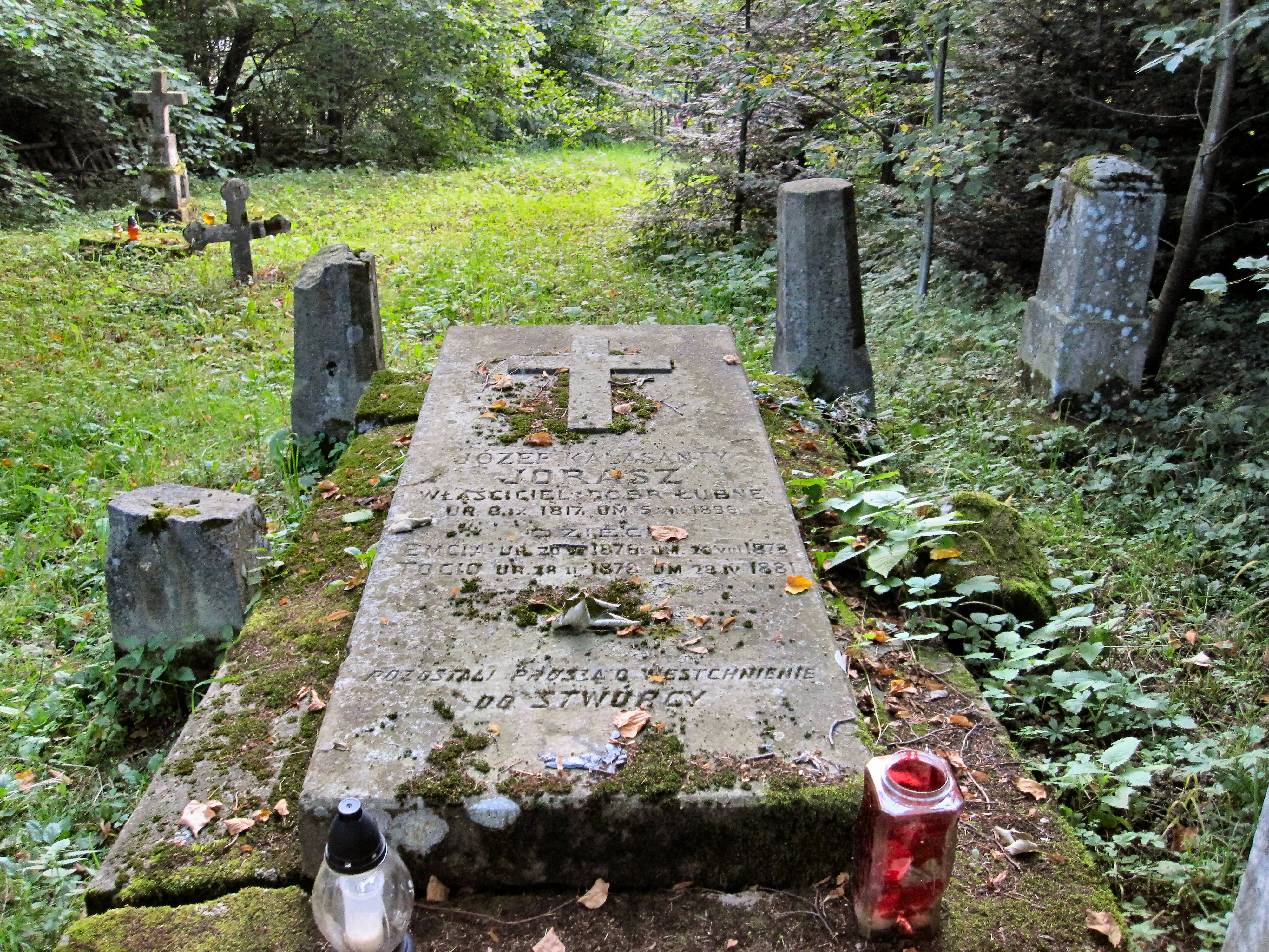 Cemetery in Bystre